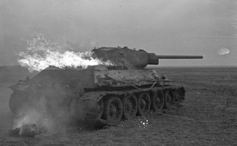 Russia. Burning T-34 tank, Russia 1941.